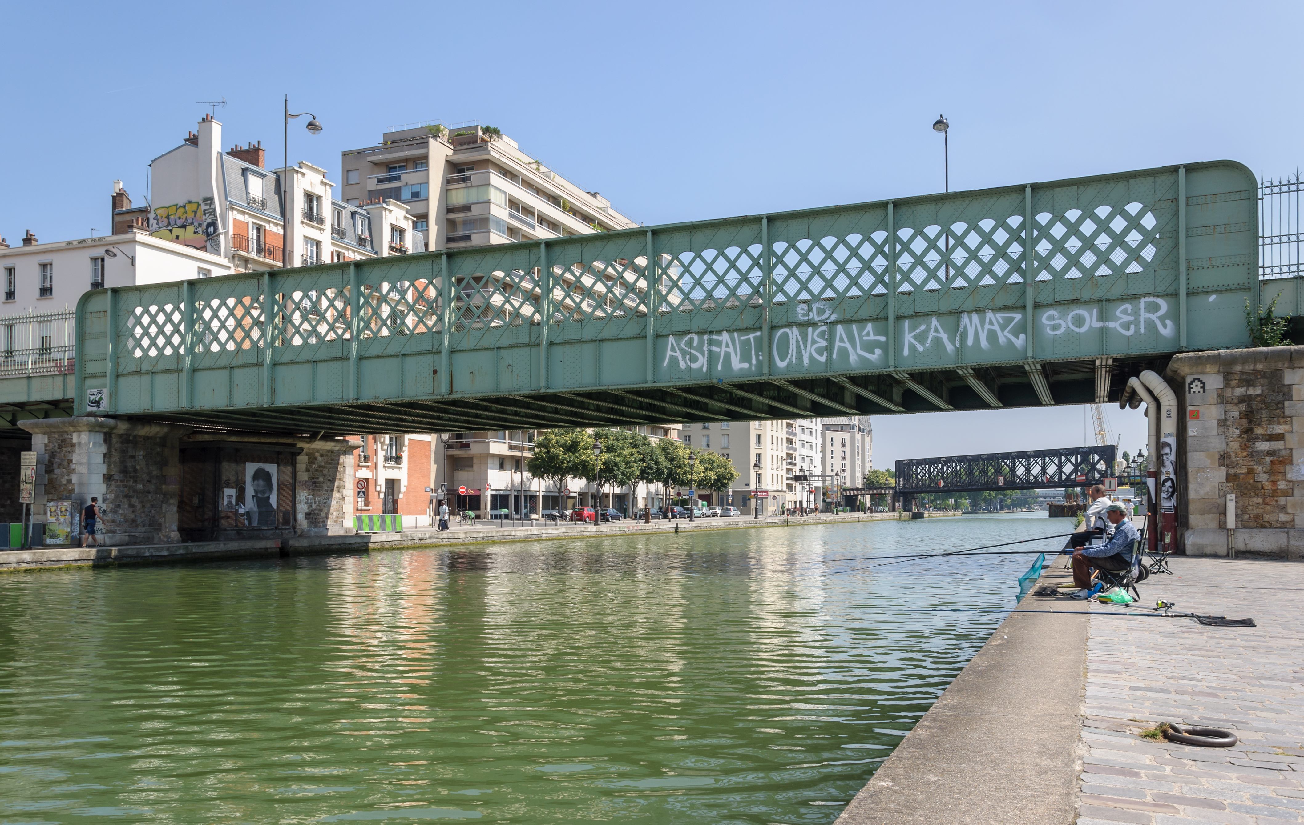 The bridge of Rue de l'Ourcq, over the second part of the bassin de la Villette leading to the canal de l'Ourcq (Paris, France).